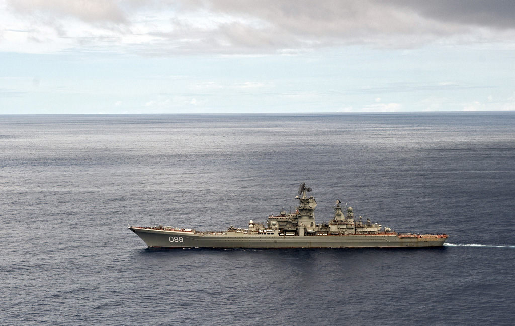 “Long-distance voyage of Pyotr Veliky nuclear-powered battlecruiser”. The Pyotr Veliky nuclear-powered cruiser.